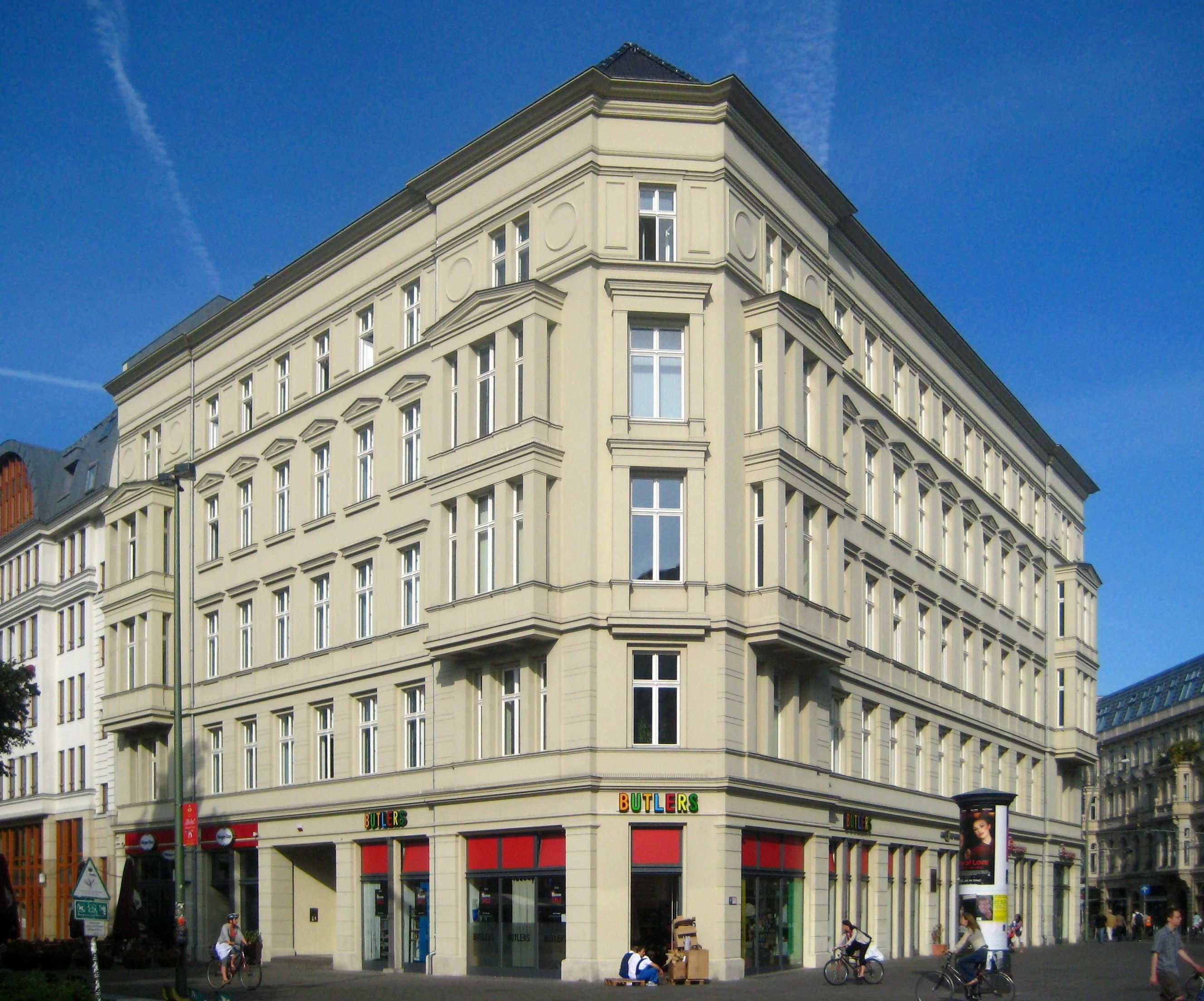 Commercial and residential building Neue Promenade No. 3, corner of Hackescher Markt (right), in Berlin-Mitte. It was built in 1873. The house has been designated as a historic landmark.